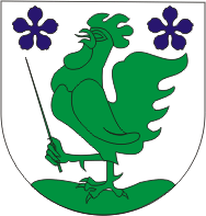 Coat of arms of Põlva linn, Estonia